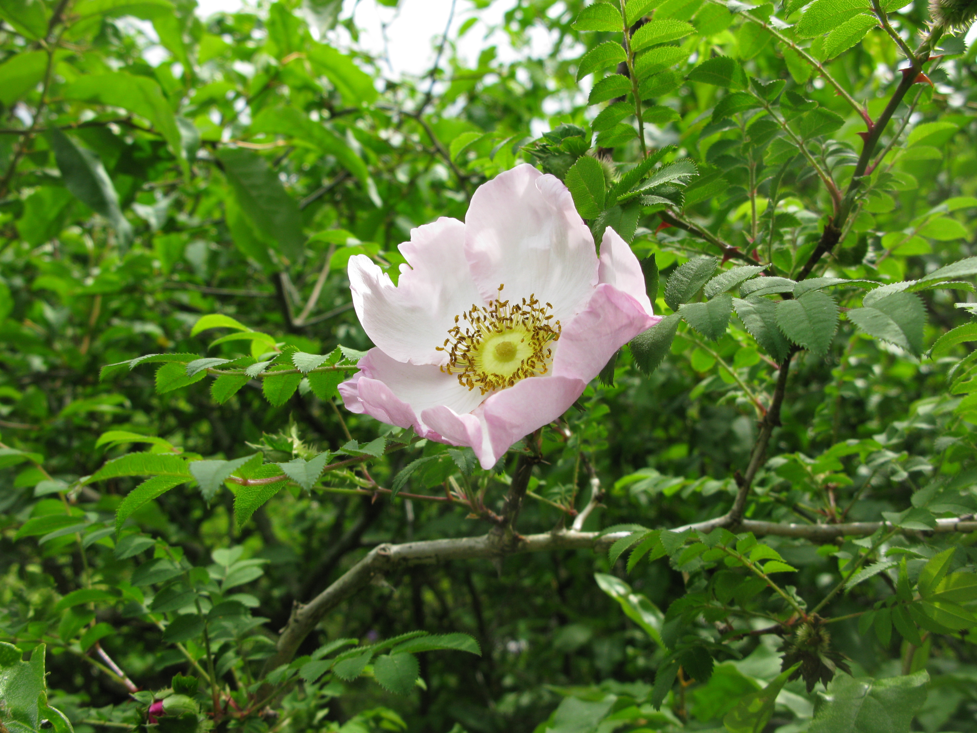 Rosa hirtula — or Rosa roxburghii var. hirtula. In the Hakone Botanical Garden of Wetlands, Kanagawa pref., Japan